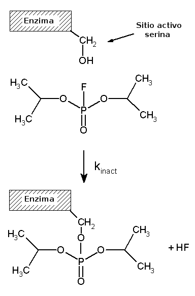 Reaction of the irreversible inhibitor diisopropylfluorophosphate (DFP) with a serine protease.